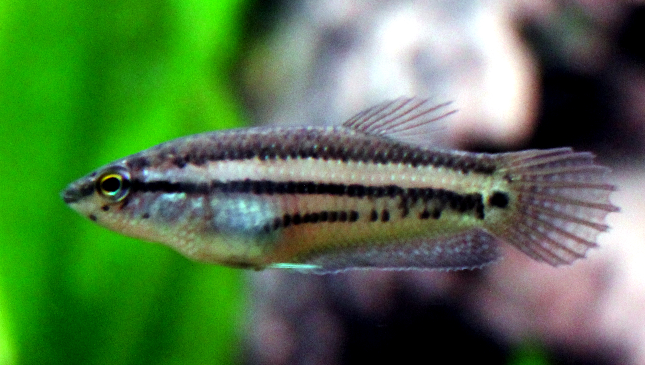 Betta edithae